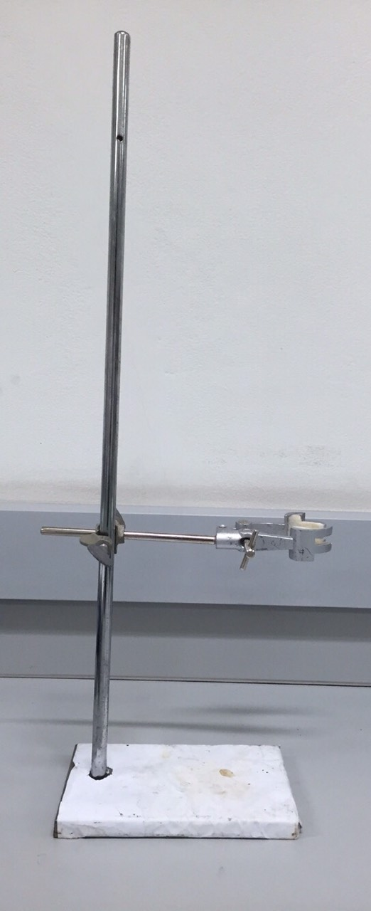 2-prong utility clamp attached with ring stand